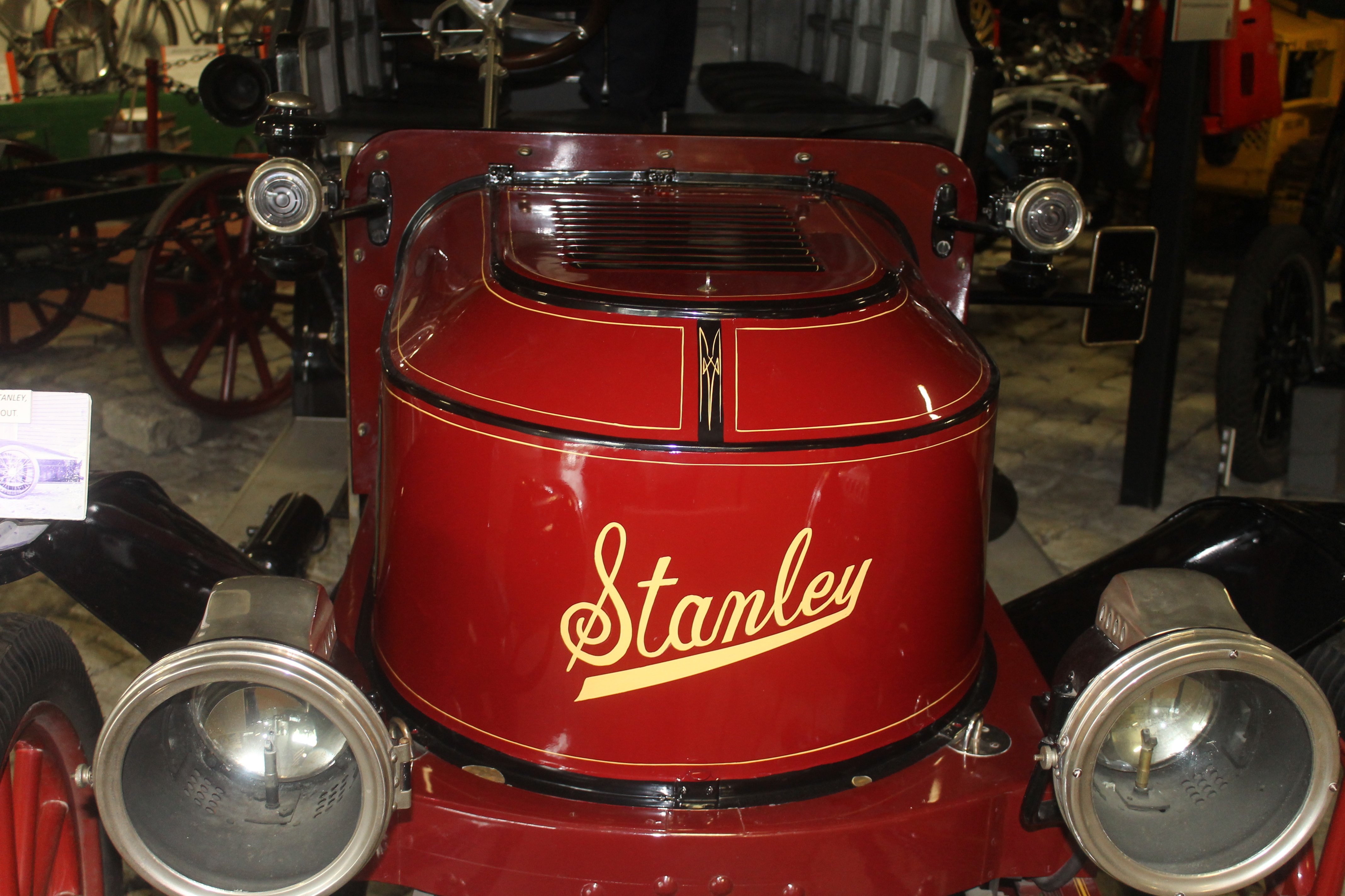 I took photo of Stanley Steamer at the Cole Land Transportation Museum in Bango, ME, with Canon camera.